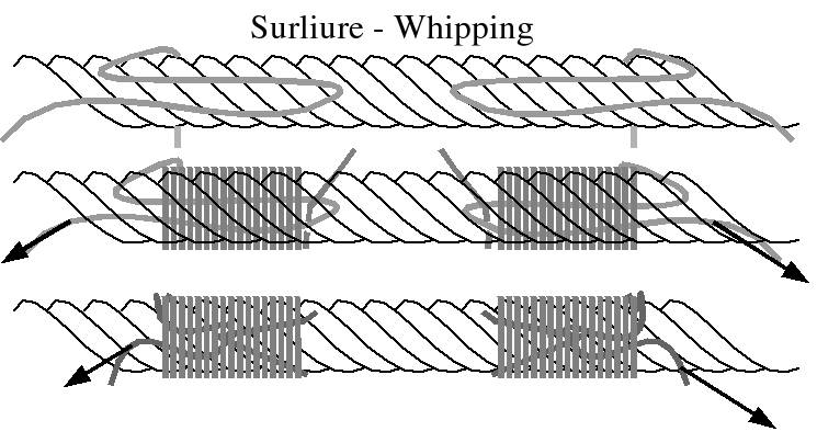 Surliure (schéma) - Whipping (how to do). Marine - Knots